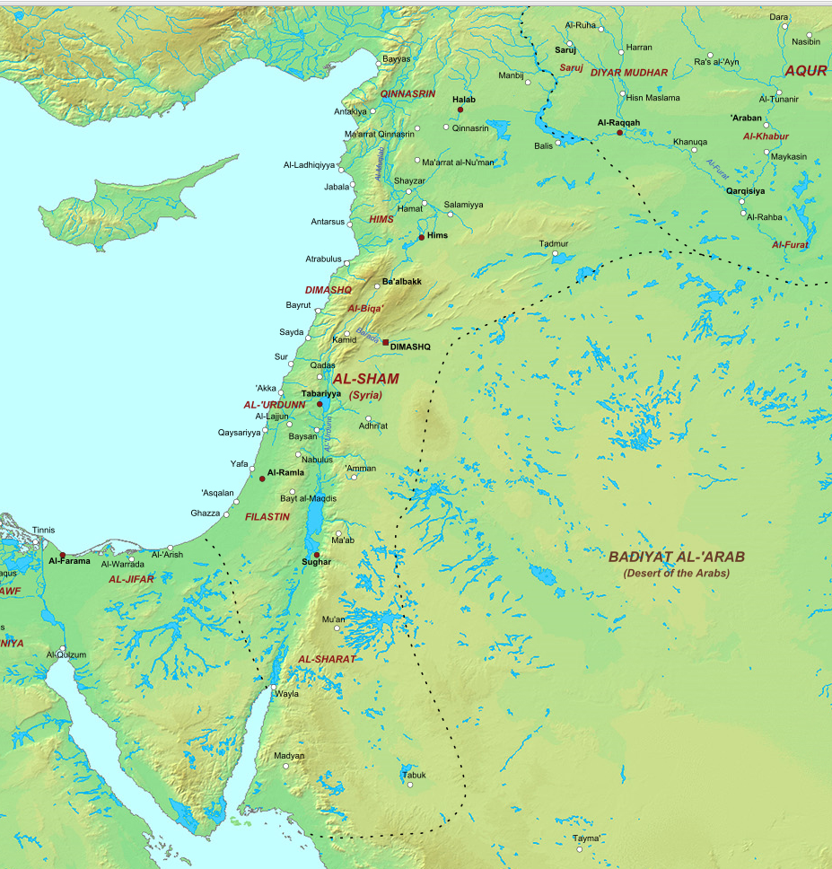 The early Islamic region, circa 985, of Bilad al-Sham, i.e. the Levant